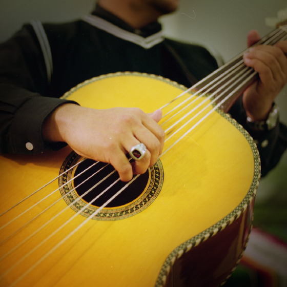 Guitarron.